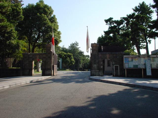 The front gate of the Tobata campus of Kyushu Institute of Technology, Tobata ward, Kitakyushu Taken and uploaded by Ian Ruxton